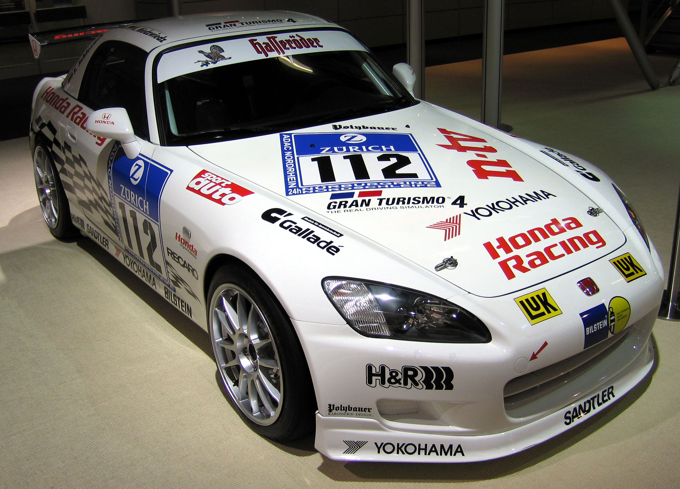 Honda Racing S2000 at the IAA 2005